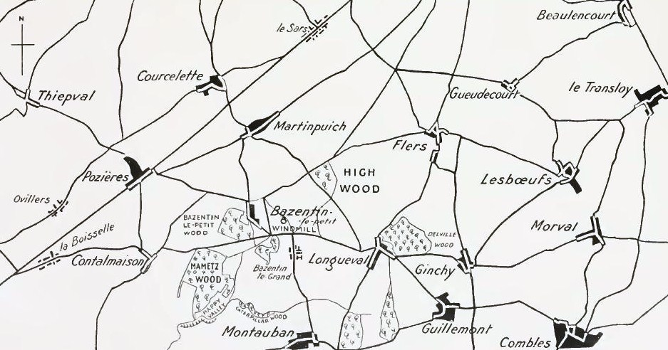 Diagram of the vicinity of High Wood in 1916